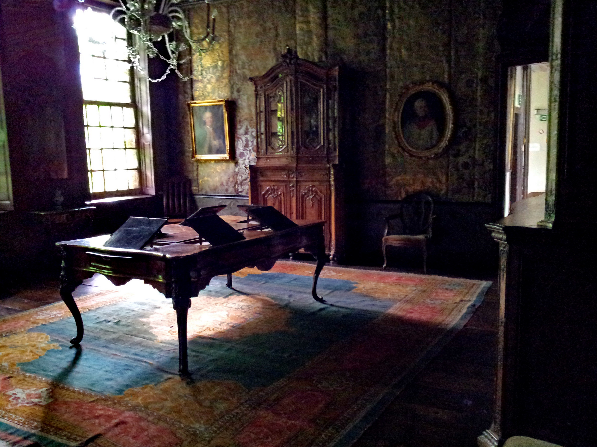 Liège, Belgium. View of the Salle Henri-Jean Hennet, an 18th-century period room with Cuir de Cordoue wall hangings and period furniture on the upper floor of Hôtel d'Ansembourg. The table was made by I.P. Heuvelman in 1755.